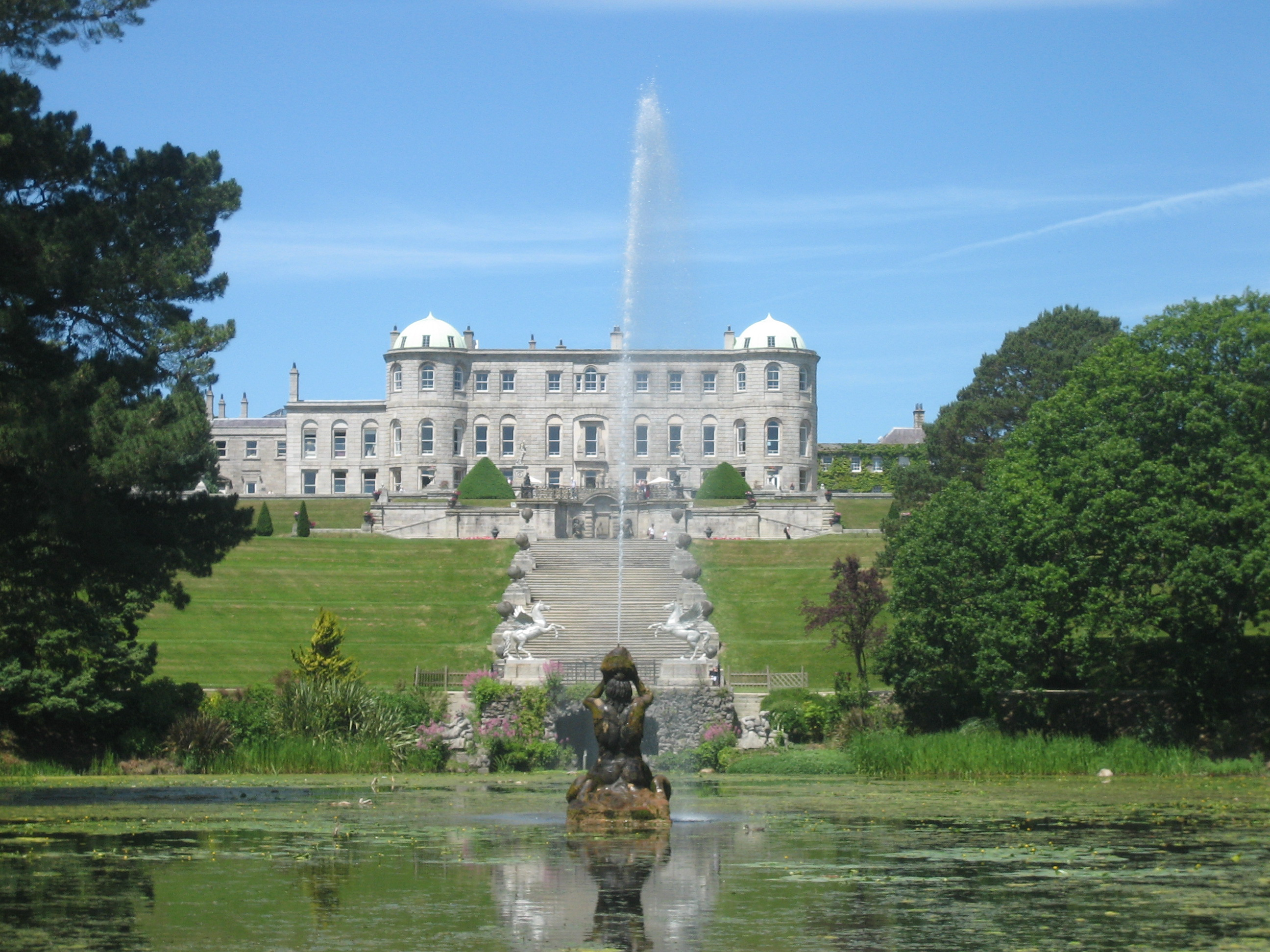 Copyright (c) 2006 Amanda Susan Munroe. Permission is granted to copy, distribute and/or modify this document under the terms of the GNU Free Documentation License, Version 1.2 or any later version published by the Free Software Foundation; with no Invariant Sections, no Front-Cover Texts, and no Back-Cover Texts. A copy of the license is included in the section entitled "GNU Free Documentation License".